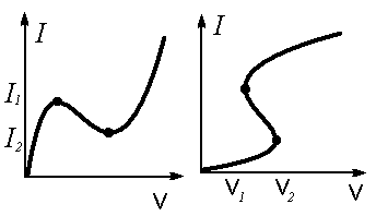 Current-voltage characteristics or IV curves showing two types of negative differential resistance. The left graph shows voltage controlled negative resistance (VCNR) also called N type. In this type the voltage is a multivalued function of current, but the current is a single-valued function of voltage. The graph is shaped vaguely like the letter N, with a voltage region with negative resistance between two positive resistance regions. Electronic devices with this type of negative resistance include the tunnel diode, Gunn diode, and vacuum tubes operating in the "dynatron" mode. The right graph shows current controlled negative resistance (CCNR) also called S type. In this type the voltage is a multivalued function, while the current is a single-valued function. The graph is shaped vaguely like the letter S, with a region of current with negative resistance between to regions with positive resistance. Devices with this type of negative resistance include the IMPATT diode, unijunction transistor, SCR, and gas-discharge tubes like neon lamps and fluorescent tubes.